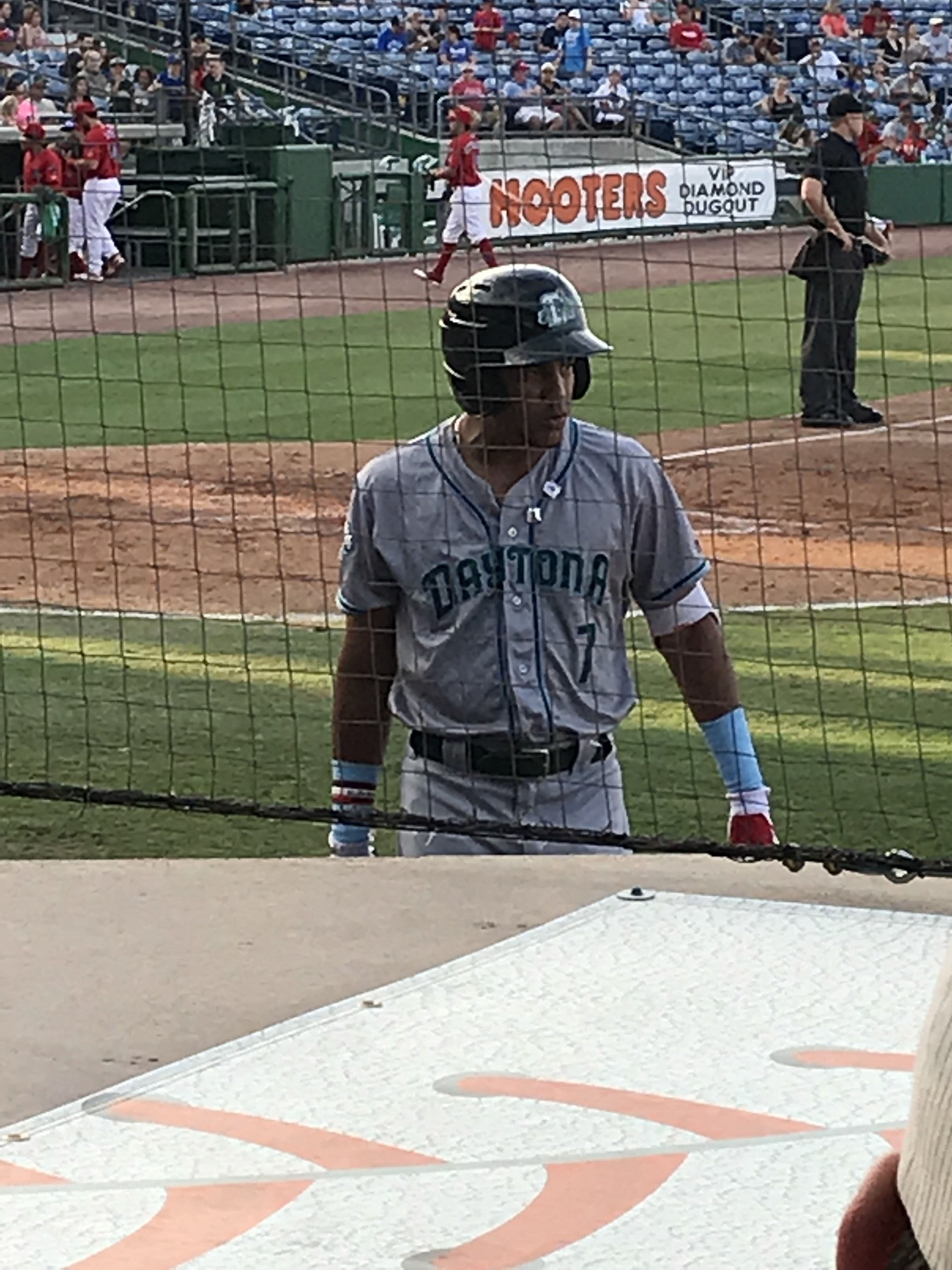 José Siri playing for the Daytona Tortugas